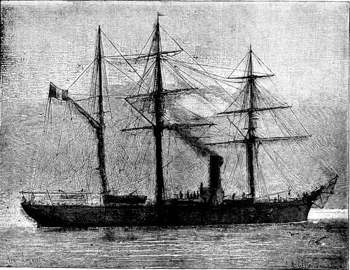 The French sail-steamer Talisman, launched in 1862 and used as an deep sea exploration ship